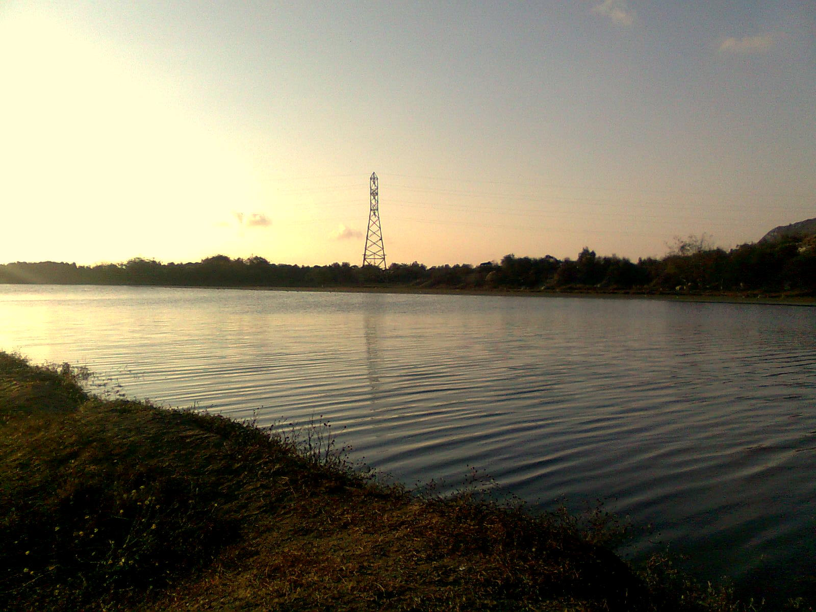 Laguna verde (Valparaíso) 1